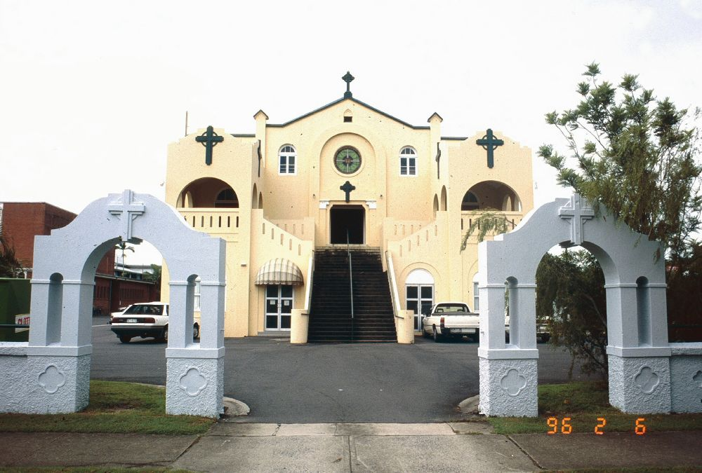 St Monica's Old Cathedral, 1996